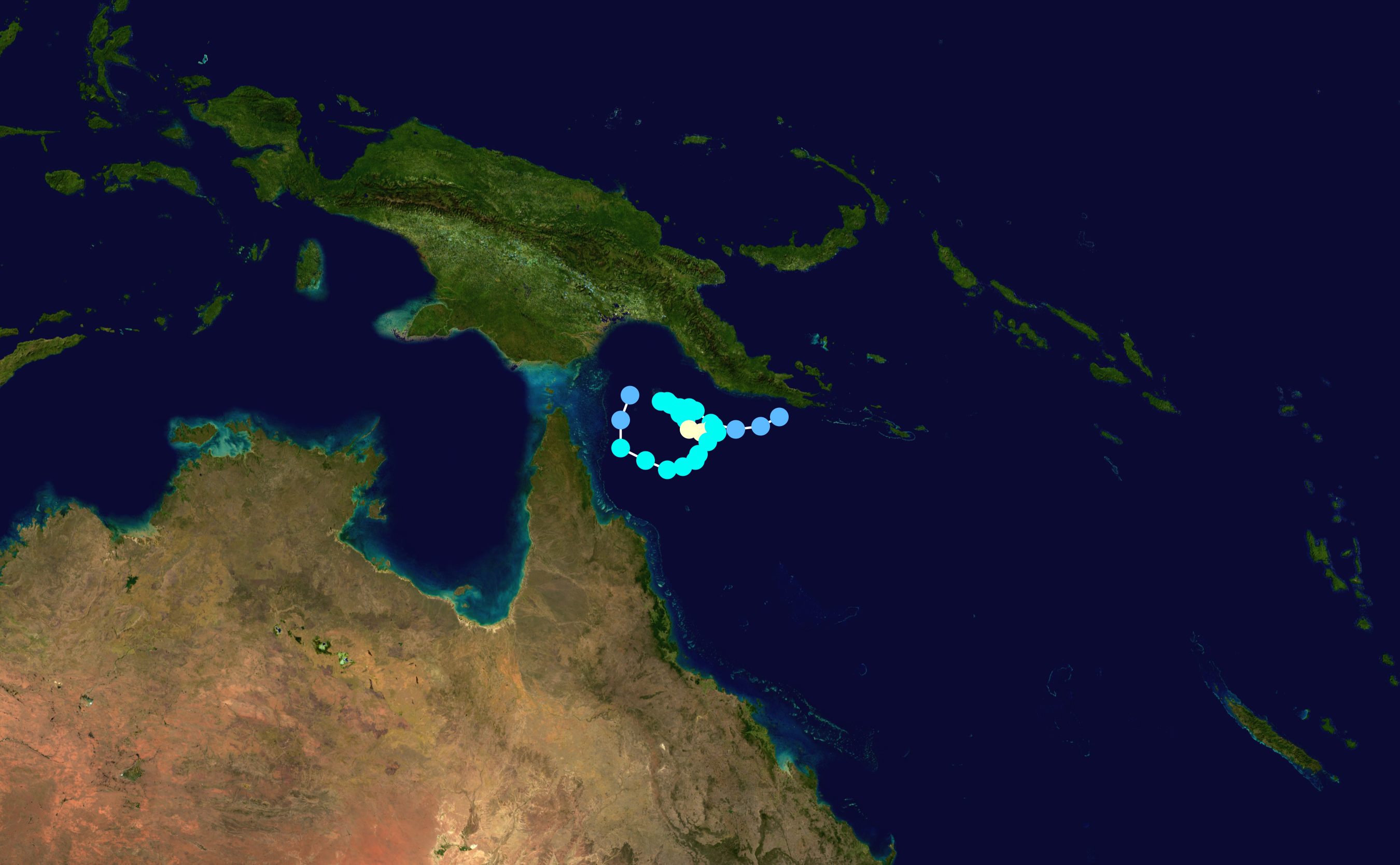 Track map of Severe Tropical Cyclone Guba of the 2007-08 Australian region cyclone season. The points show the location of the storm at 6-hour intervals. The colour represents the storm's maximum sustained wind speeds as classified in the Saffir–Simpson scale (see below), and the shape of the data points represent the nature of the storm, according to the legend below. Saffir–Simpson scale Tropical depression≤38 mph≤62 km/h Category 3111–129 mph178–208 km/h Tropical storm39–73 mph63–118 km/h Category 4130–156 mph209–251 km/h Category 174–95 mph119–153 km/h Category 5≥157 mph≥252 km/h Category 296–110 mph154–177 km/h Unknown Storm type Tropical cyclone Subtropical cyclone Extratropical cyclone / Remnant low / Tropical disturbance / Monsoon depression